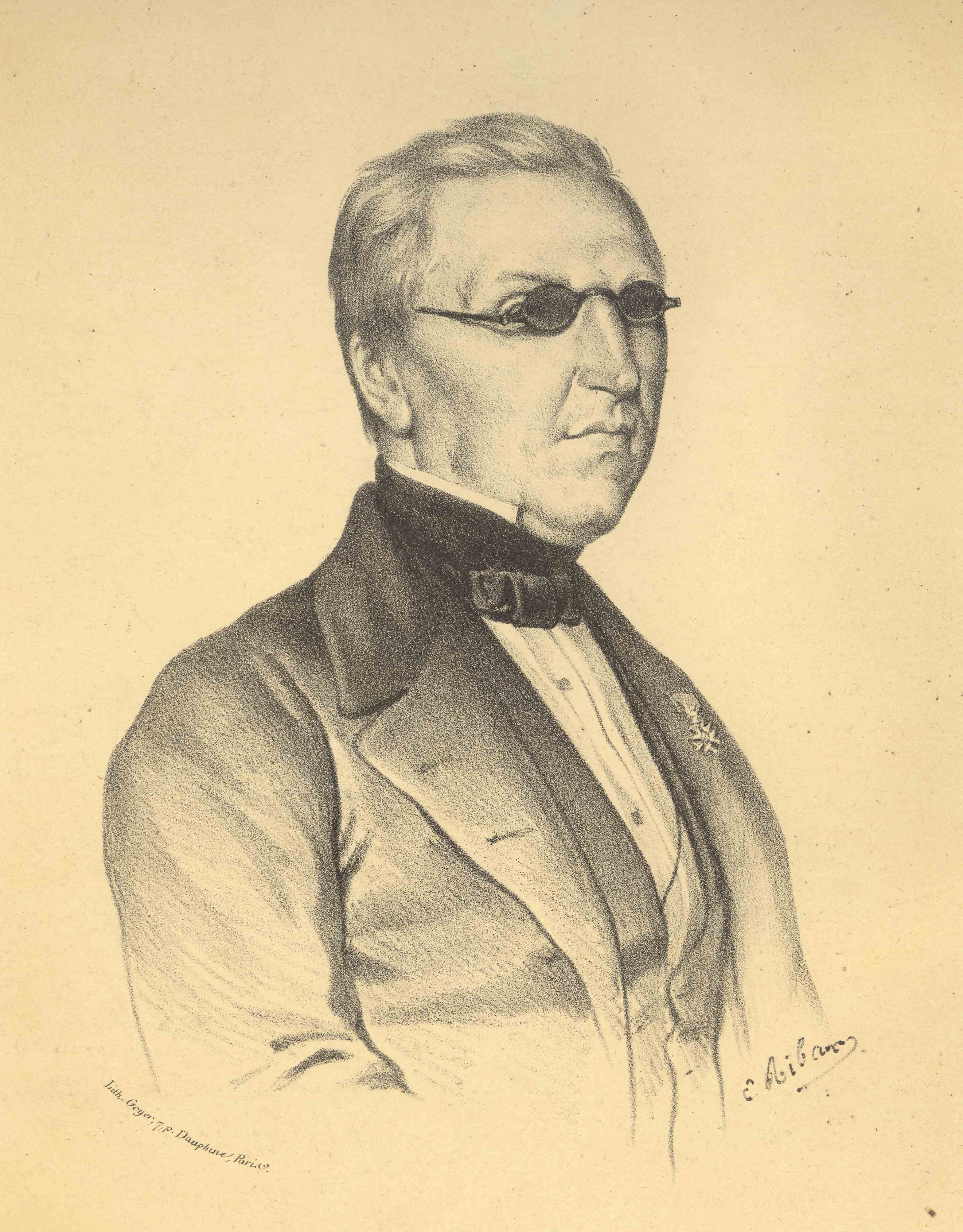 Portrait of Claude Montal (1800-1865)